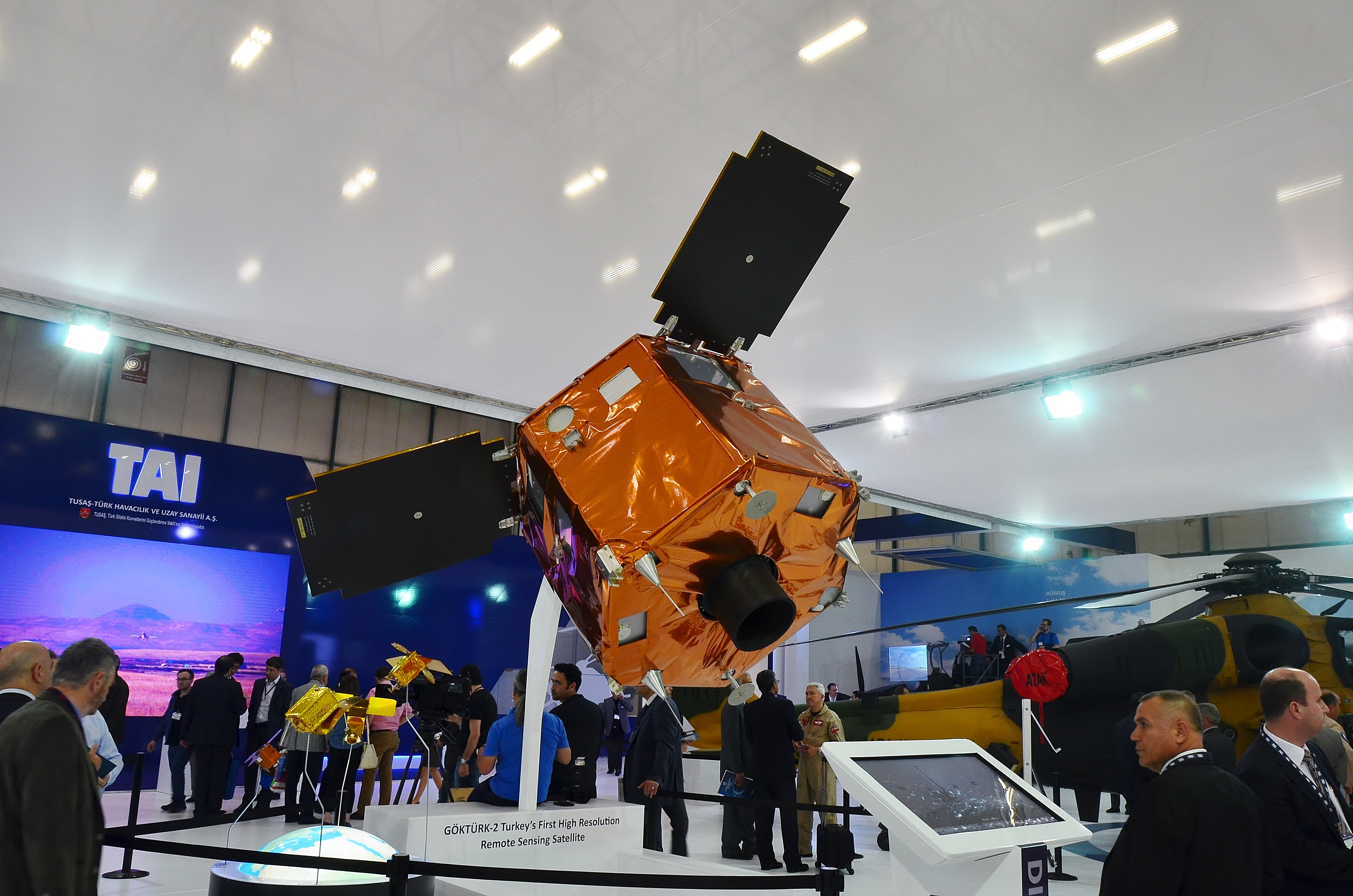 Reconnaissance and surveillance satellite Göktürk 2 (model) of Air Force Command by Turkish Aerospace Industries at IDEF 2015